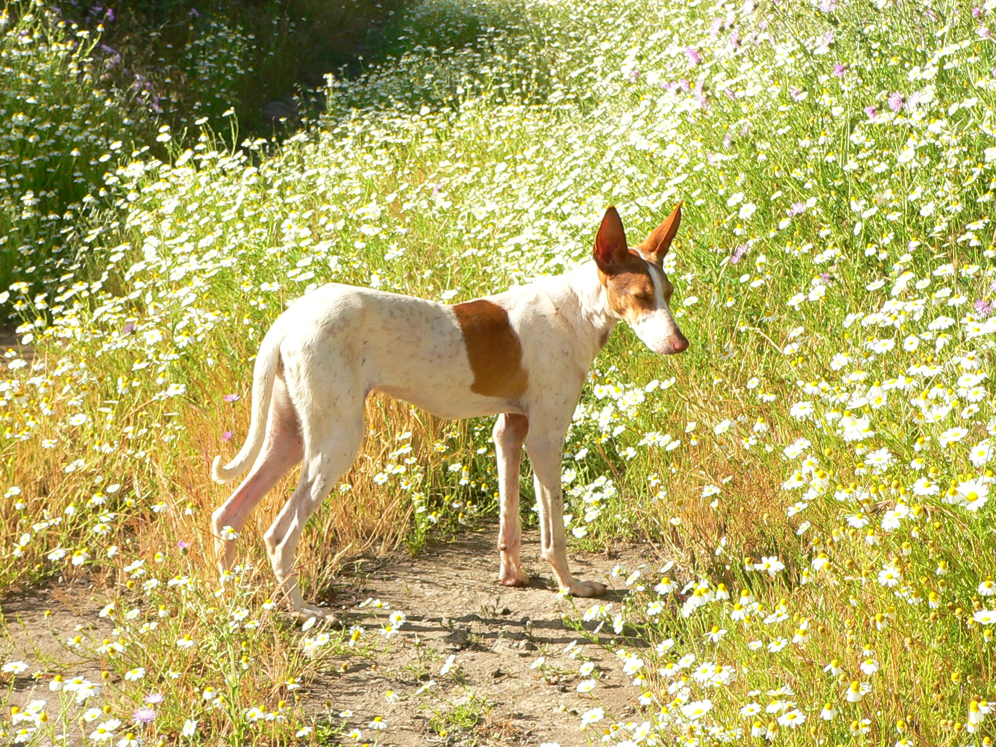 Female Podenco Canario abandoned in the countryside (now happily adopted in Germany).